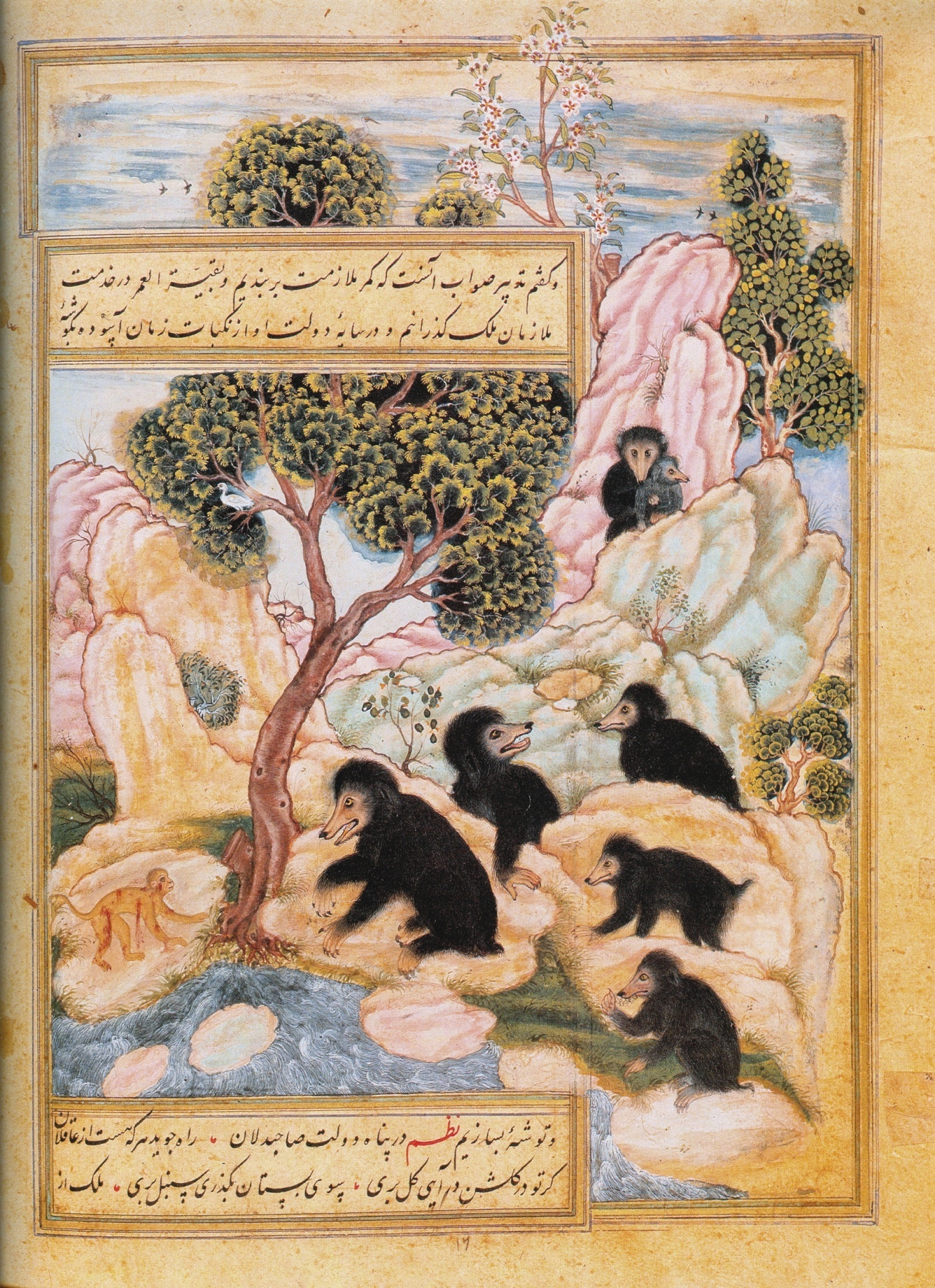 Maimun, the patriotic monkey, lures the bears to their fate. Anvar-i Suhaili by Husain Wa'iz Kashifi. 1570-71 School of Oriental and African Studies, London